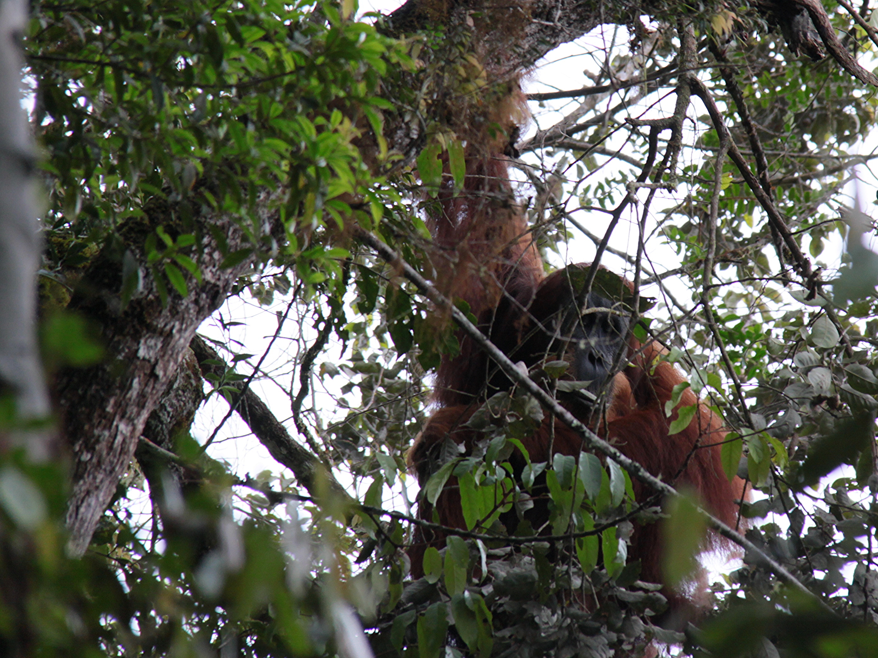 Phylum: Chordata Class: Mammalia Order: Primates Family: Hominidae Subfamily: Ponginae Genus: Pongo Lacépède, 1799 Pongo abelii LESSON, 1827 (Sumatran orangutan) more info: Indonesia, N-Sumatra, Aceh: Mt. Leuser NP (E-slope of Mt. Kemiri), ca. 1400-1500m asl., 15.04.2009 IMG_4659